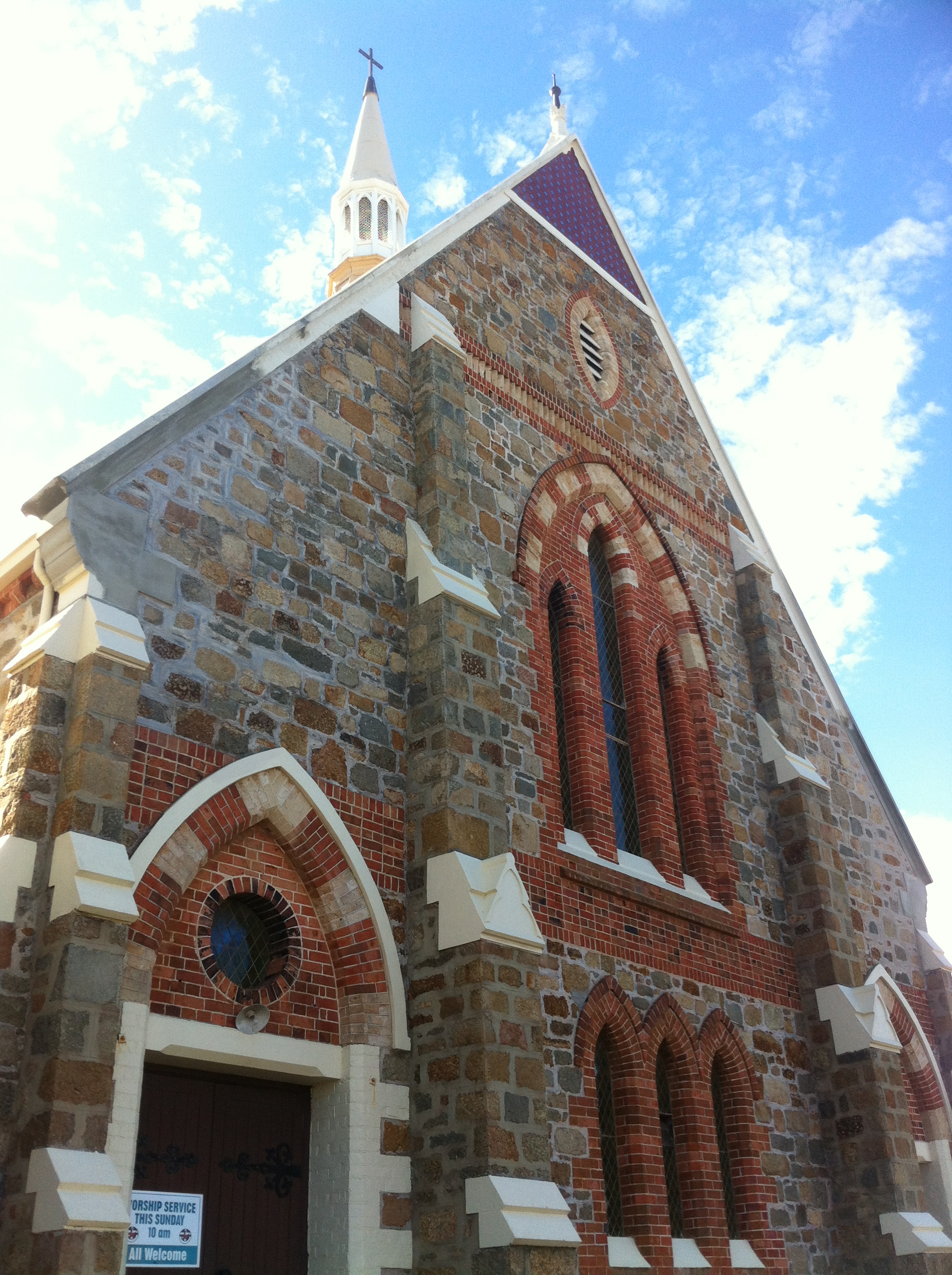 Wesley Church, Albany